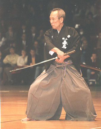 Iaido sensei